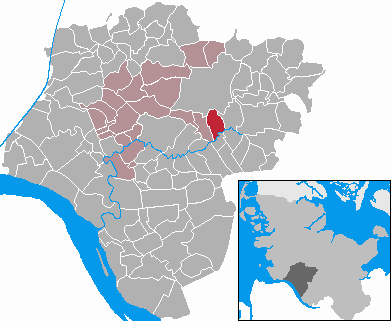 This map shows the area of the municipality Lohbarbek in the Kreis (district) Steinburg, Schleswig-Holstein, Germany.